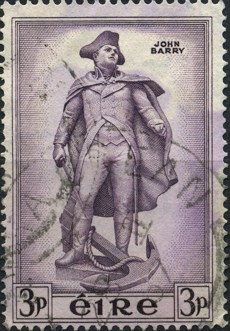 Irish Stamp, Commodore John Barry